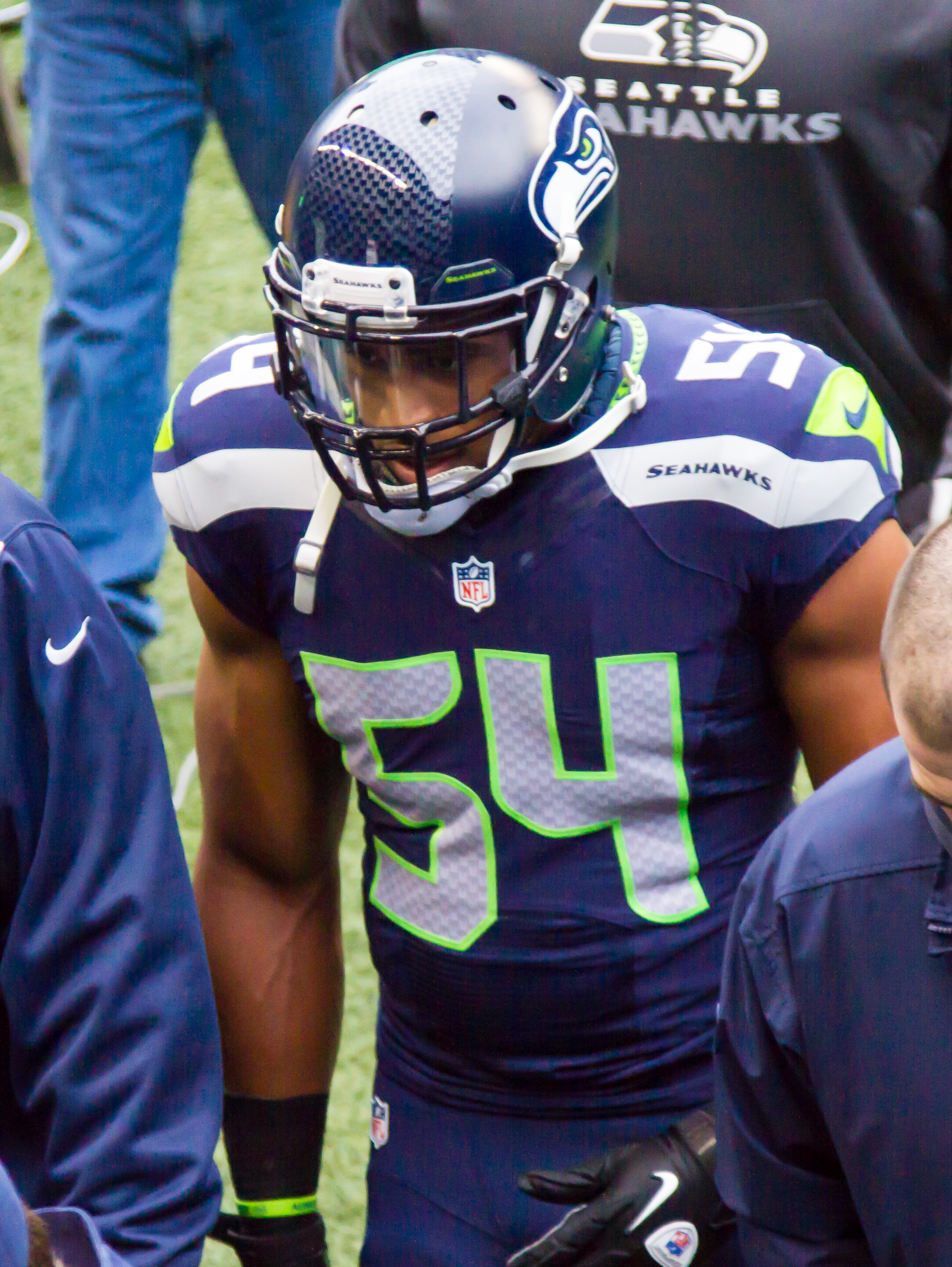 Bobby Wagner, Seahawks vs Rams 12.29.13